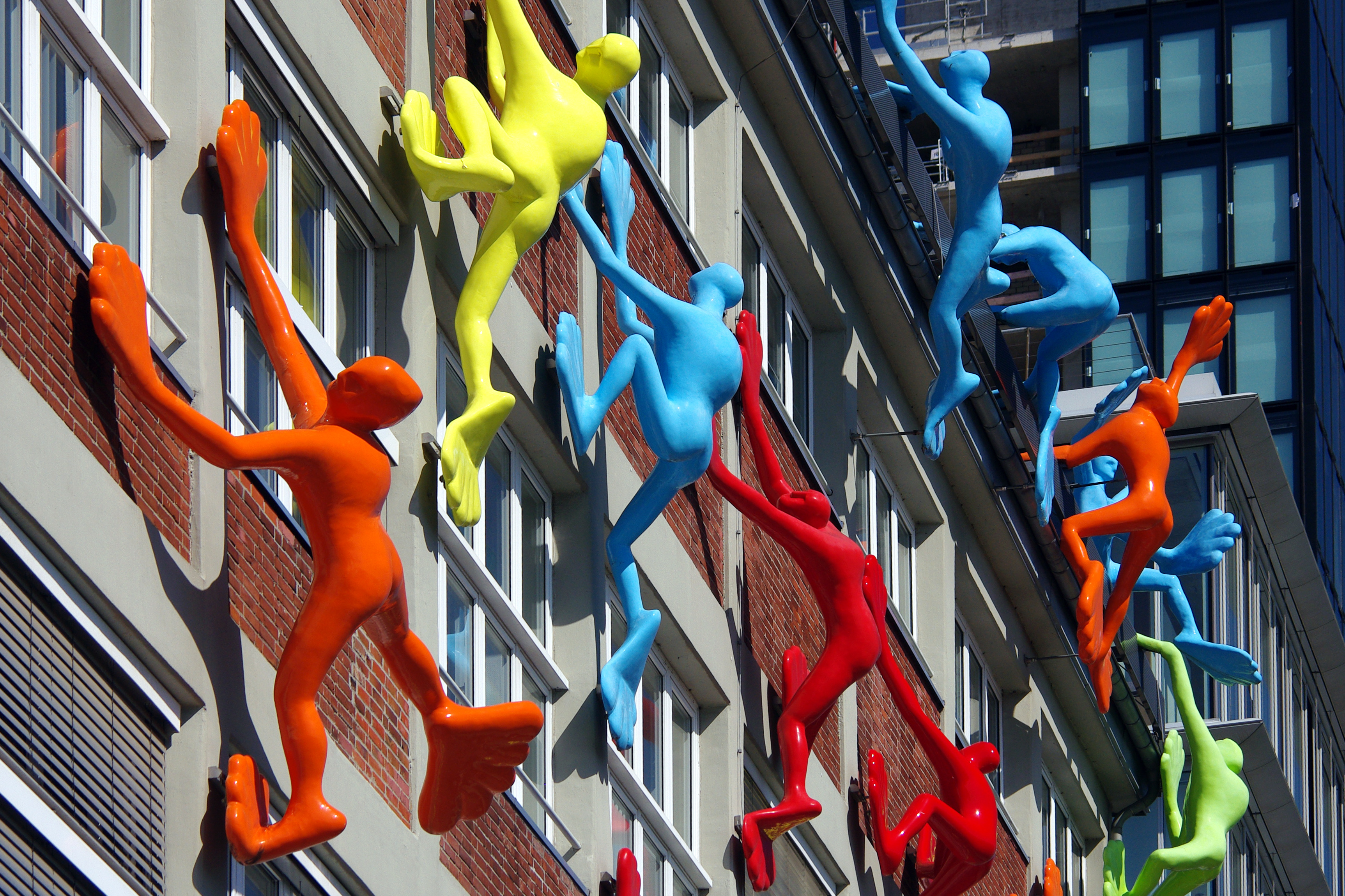 Flossis by rosalie at the Roggendorf House in Düsseldorf/Germany